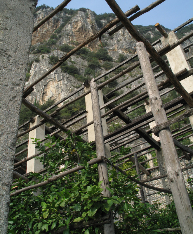 Lemon grove near Tignale/Lake Garda/ Italy